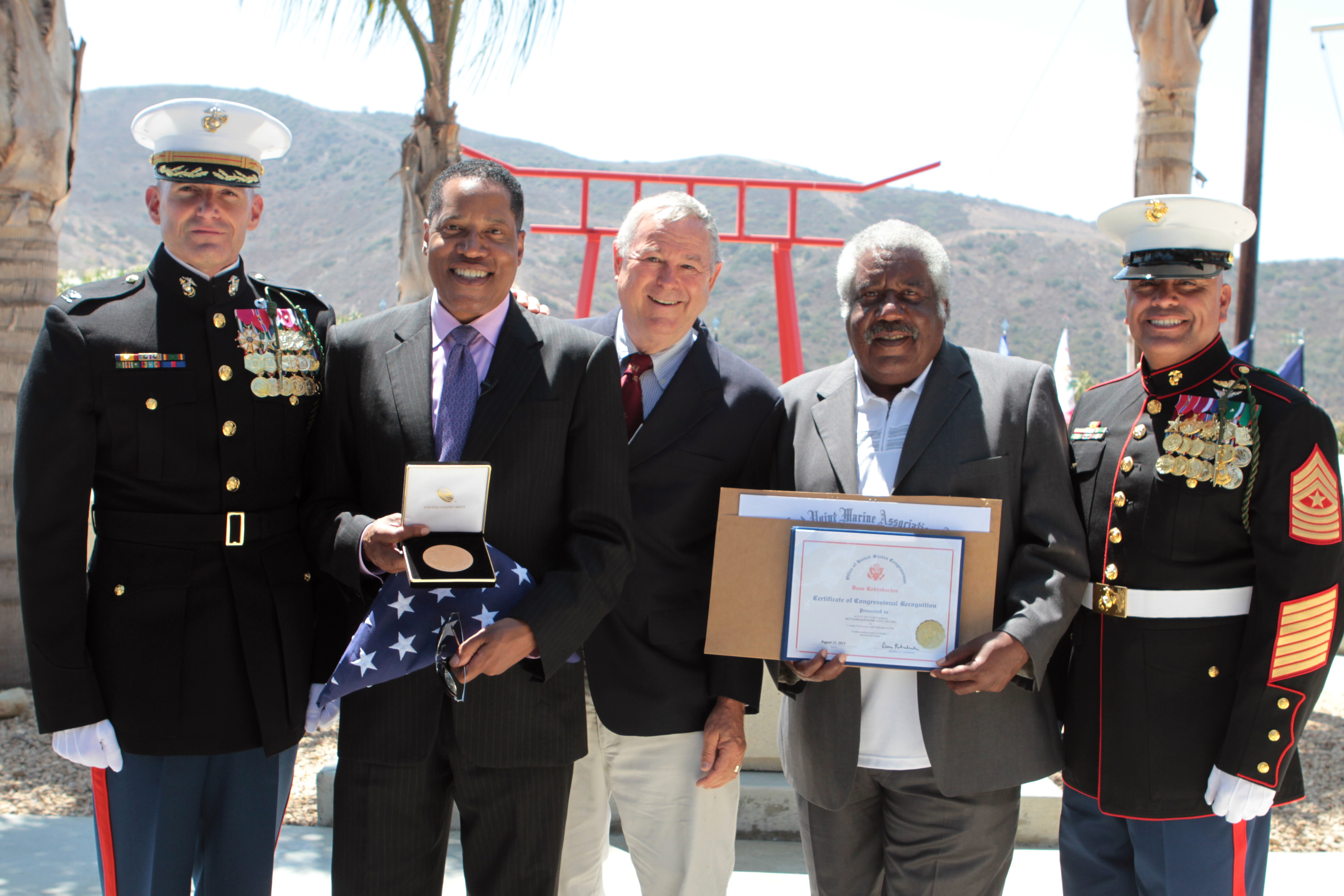 MARINE CORPS BASE CAMP PENDLETON, Calif. – Staff Sgt. Randolph Elder was posthumously awarded the Congressional Gold Medal for his service as a Montford Point Marine, among the first African Americans to enlist in the Marine Corps after it was desegregated in 1941 by President Franklin Roosevelt. His sons, Larry and Kirk Elder, received the nation’s highest award to civilians on his behalf. Pictured left to right: Col. Jason Q. Bohm, 5th Marine Regiment commanding officer, Larry Elder, U.S. Rep. Dana Rohrabacher, California 48th District, Kirk Elder, and Sgt. Maj. Alberto Ruiz, 5th Marine Regiment sergeant major.